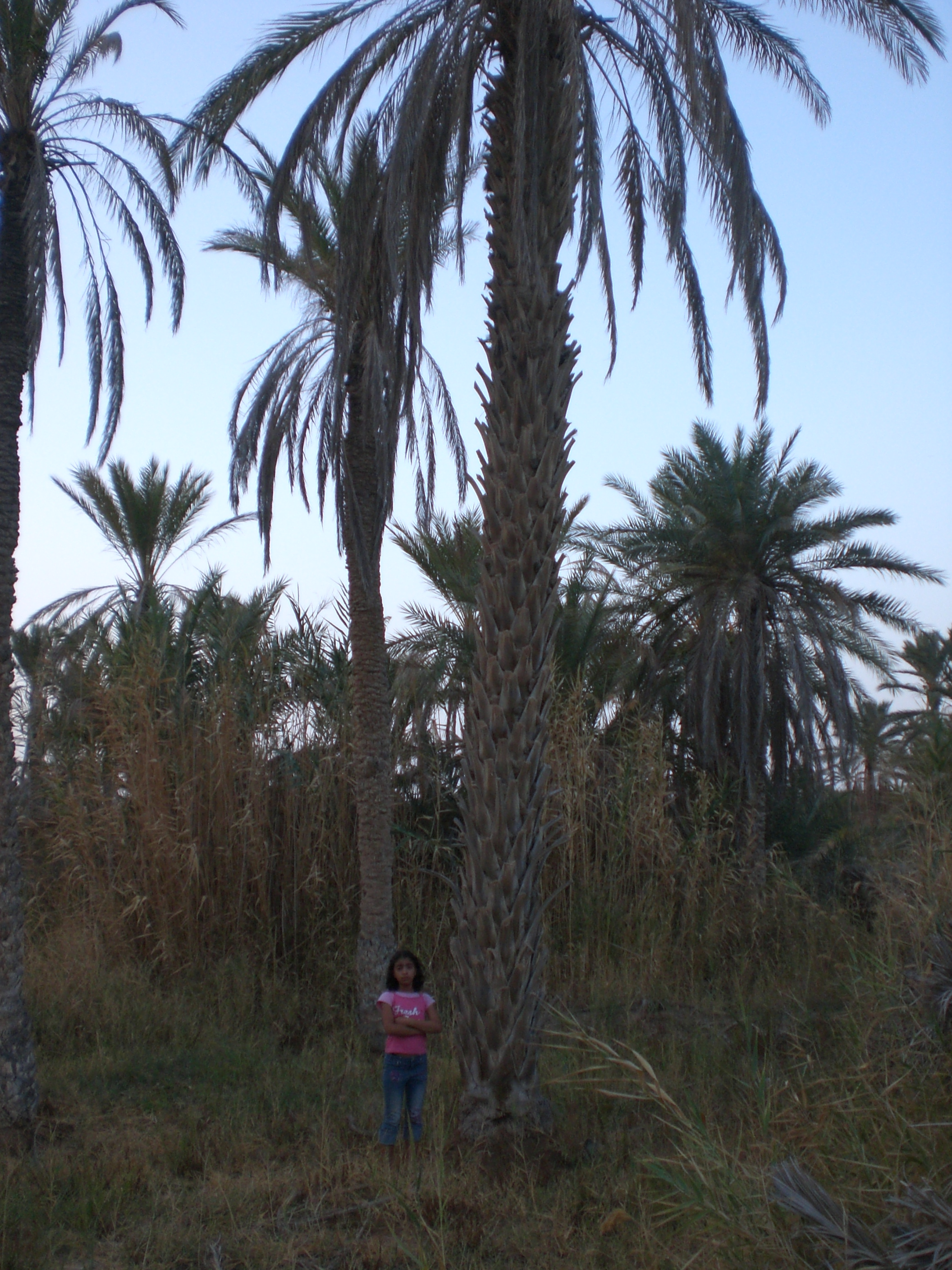 Palm-tree length